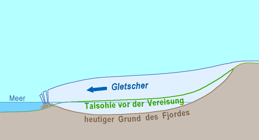 Geological genesis of a fjord